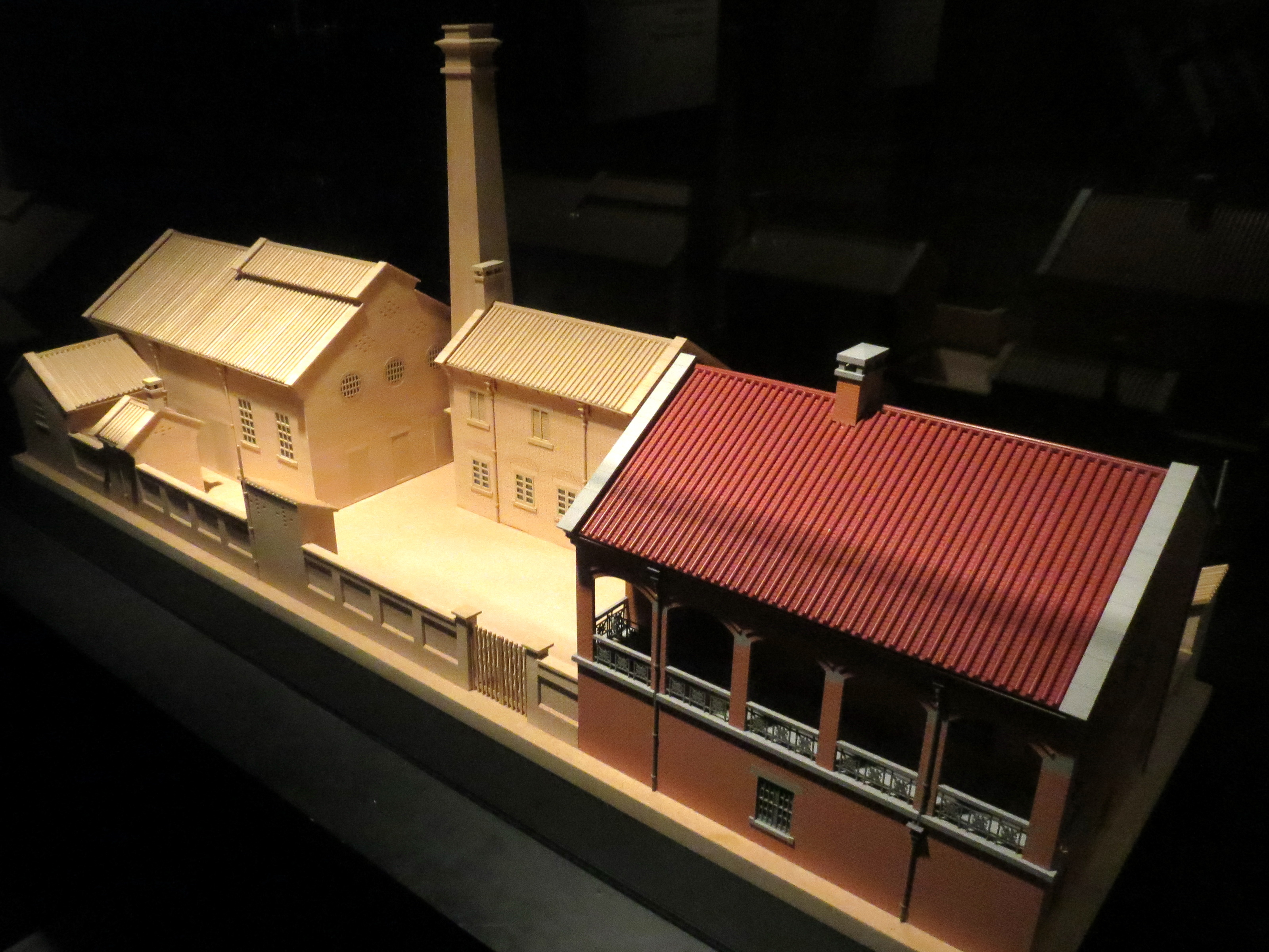 A model of the former pump station of the Water Supplies Department in Yau Ma Tei. An exhibit at the Hong Kong Heritage Discovery Centre, Tsim Sha Tsui, Kowloon, Hong Kong.